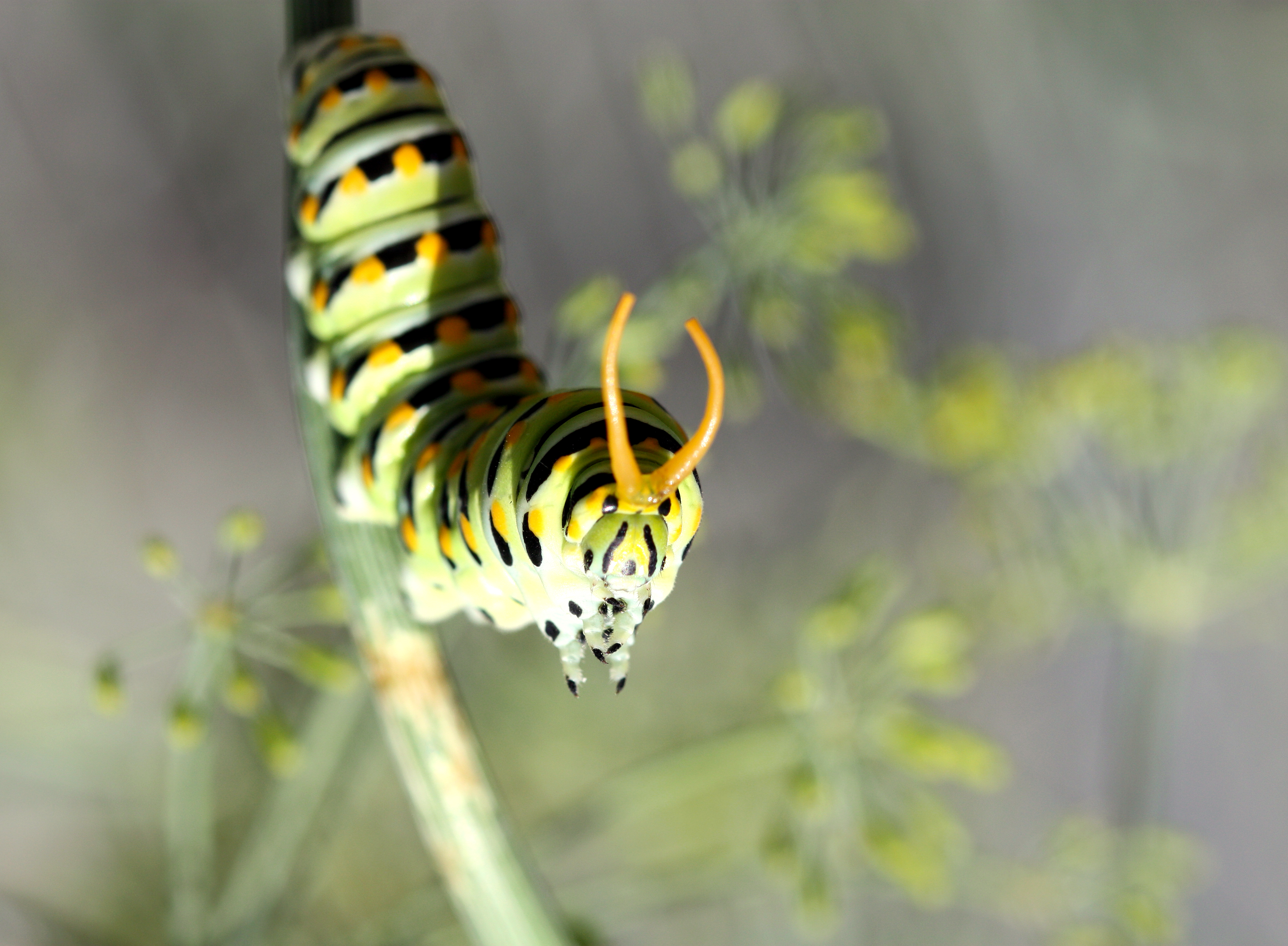 Black swallowtail caterpillar osmeterium